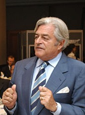 Former president of Uruguay L. Alberto Lacalle in US embassy.